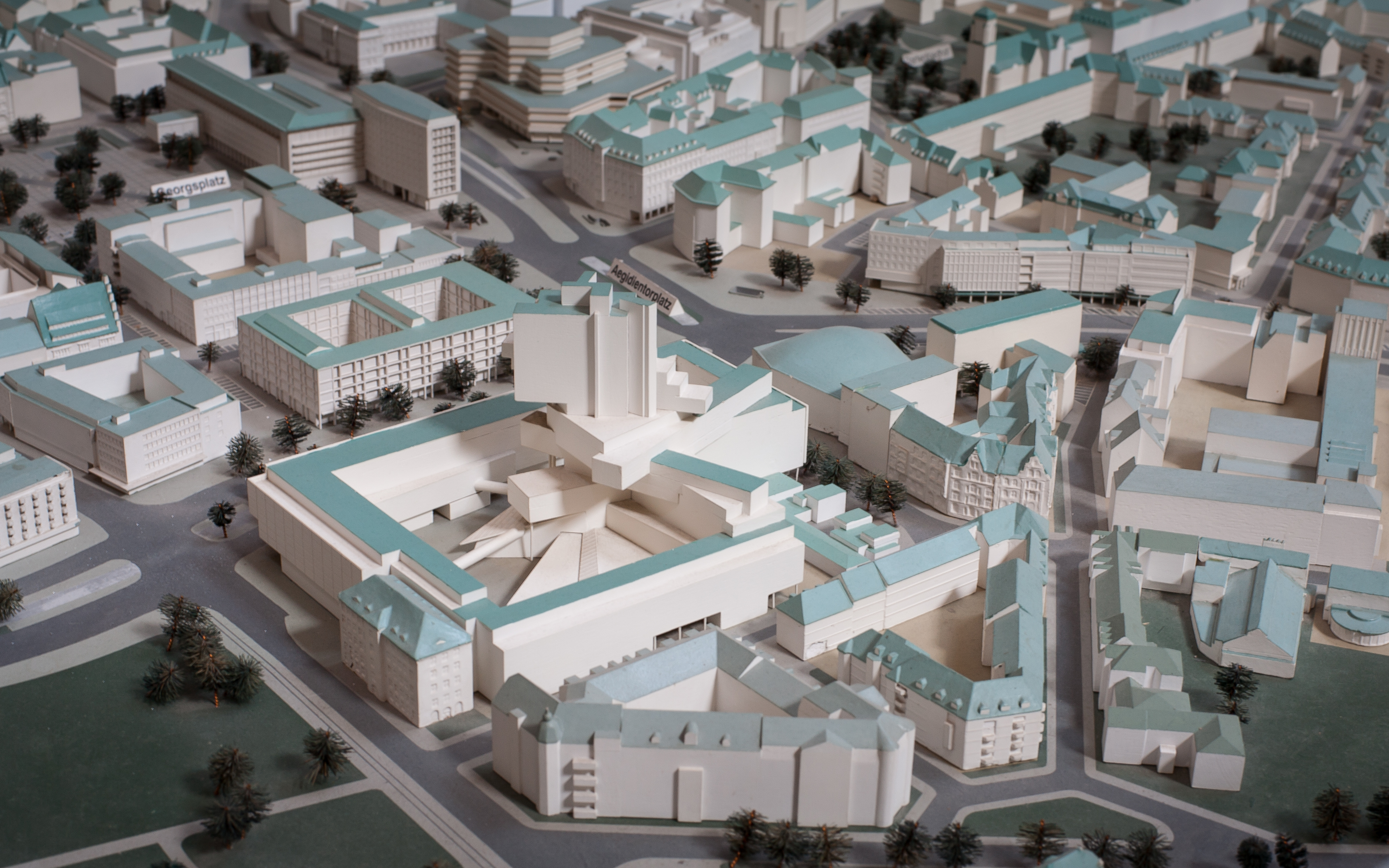 Scale model of the city of Hanover, Germany. It represents the state of approx. 2010. Aegidientorplatz square can been seen in center with Nord/LB administration building in the foreground. The hypothetical viewing direction is north east and a hypothetical location of the camera in "real world" might be:52°21′59″N 9°44′19″E / 52.366356°N 9.738704°E. The model is displayed in the (new) townhall's foyer.